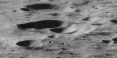 Oblique view of Grigg crater, on the far side of the moon, facing west.